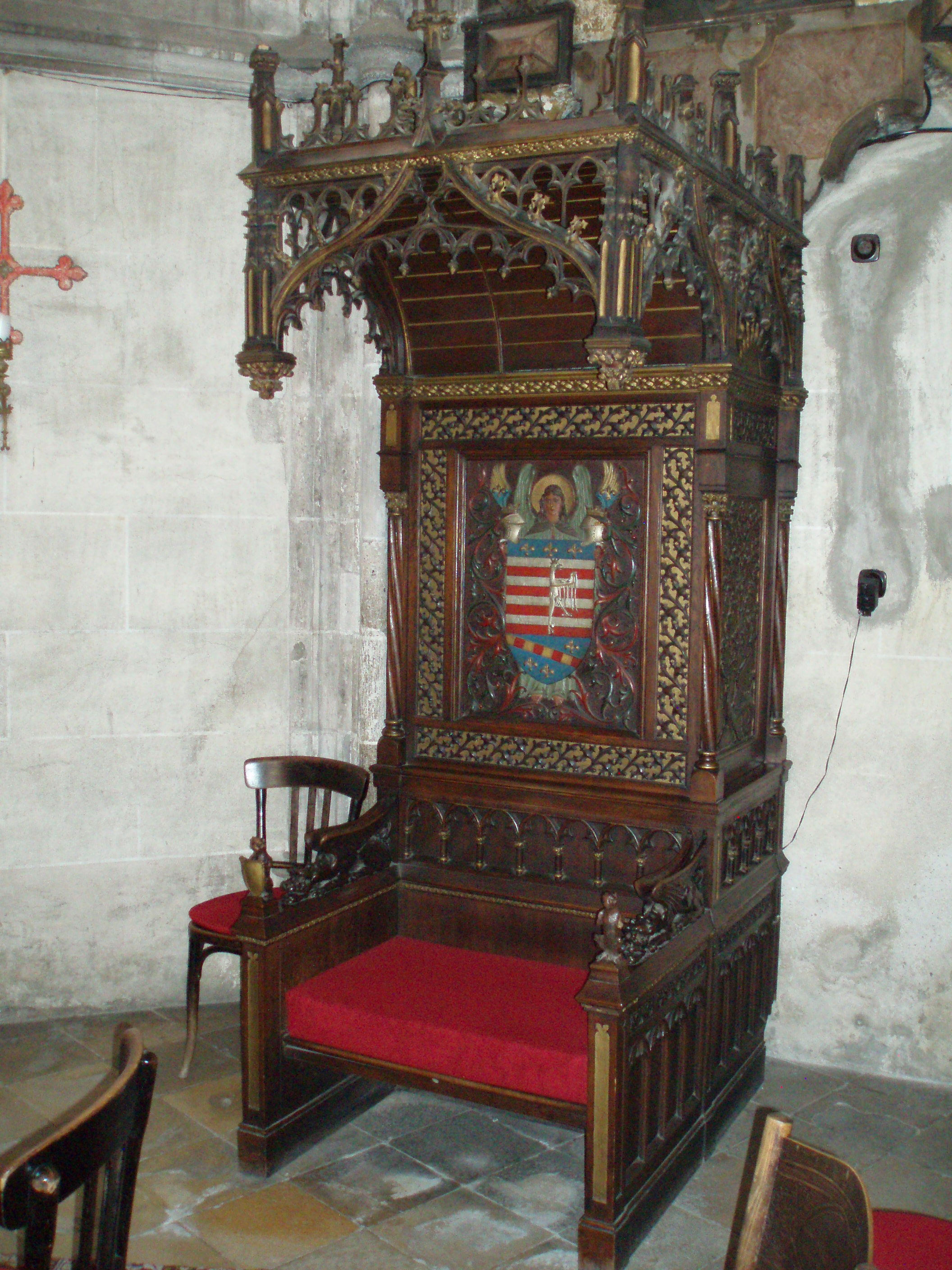 Mayors bench, St.Elisabrth Košice